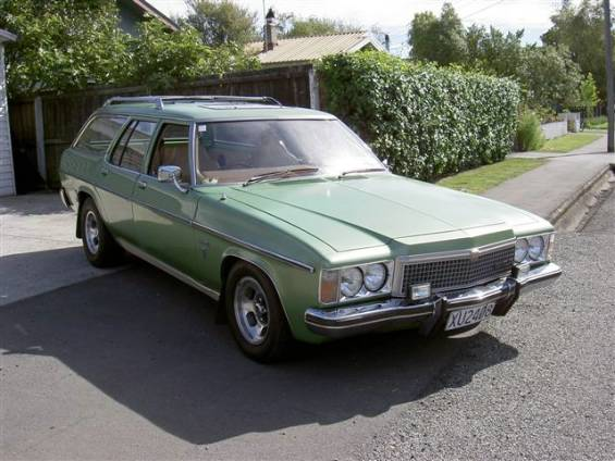 1977-1980 Holden HZ Premier.